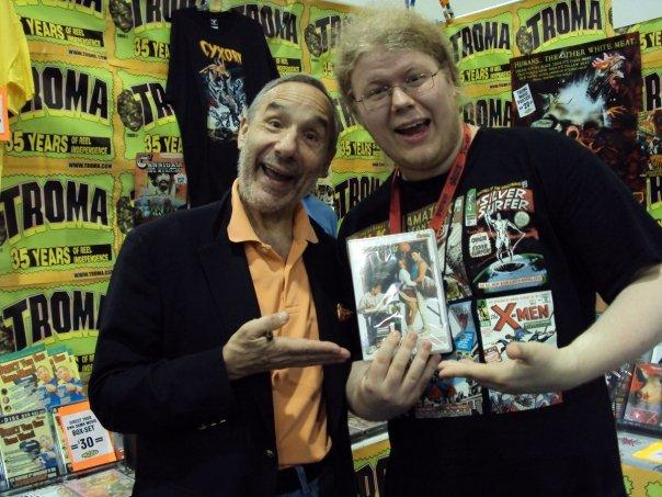 Troma Entertainment President Lloyd Kaufman promoting the DVD release of Getting Lucky at the 2009 San Diego Comic Convention.